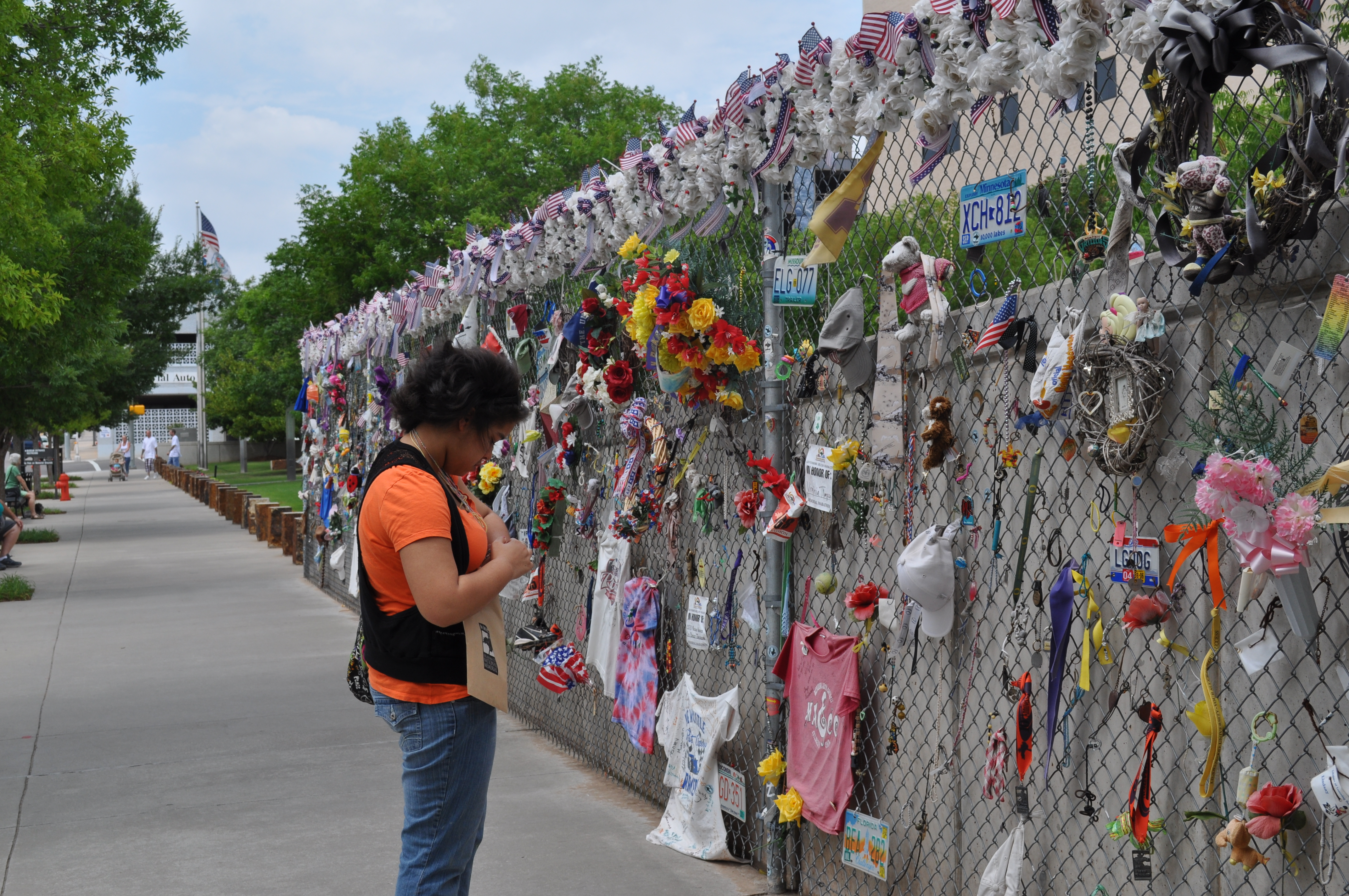 Oklahoma City National Memorial